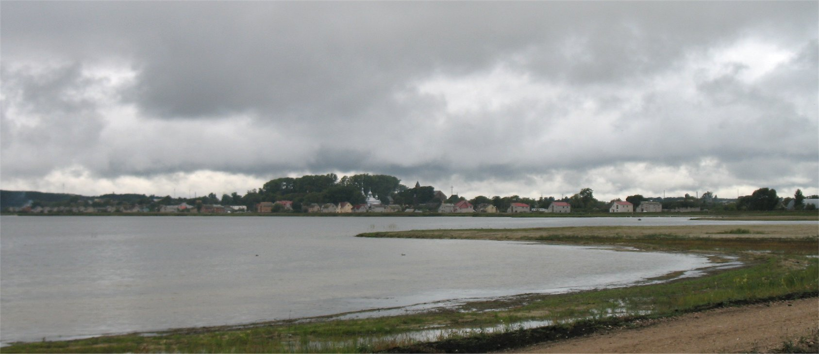 View towaeds Braslau town (Браслаў, Браслав, Braslav, Braslava, Breslauja), located in the western part of Vit(s)ebsk region (province), Belarus.